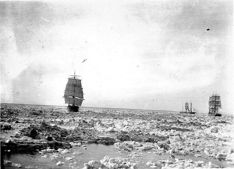 On verso of image: Star of Peru . In Folder 138 Subjects (LCTGM): Sailing ships--Bering Sea; Ice Floes--Alaska--Bering Sea Subjects (LCSH): Star of Peru (Sailing ship); Sea ice--Bering Sea